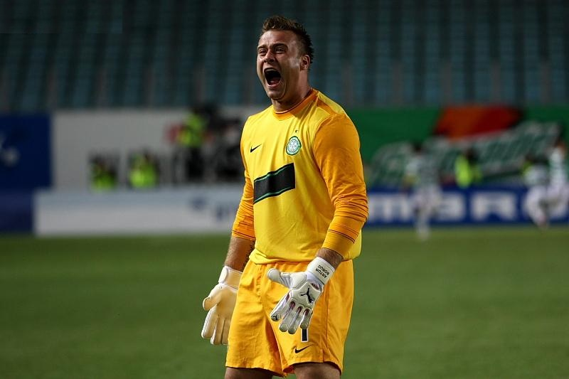 Artur Boruc (born 20 February 1980 in Siedlce) is a Polish footballer.